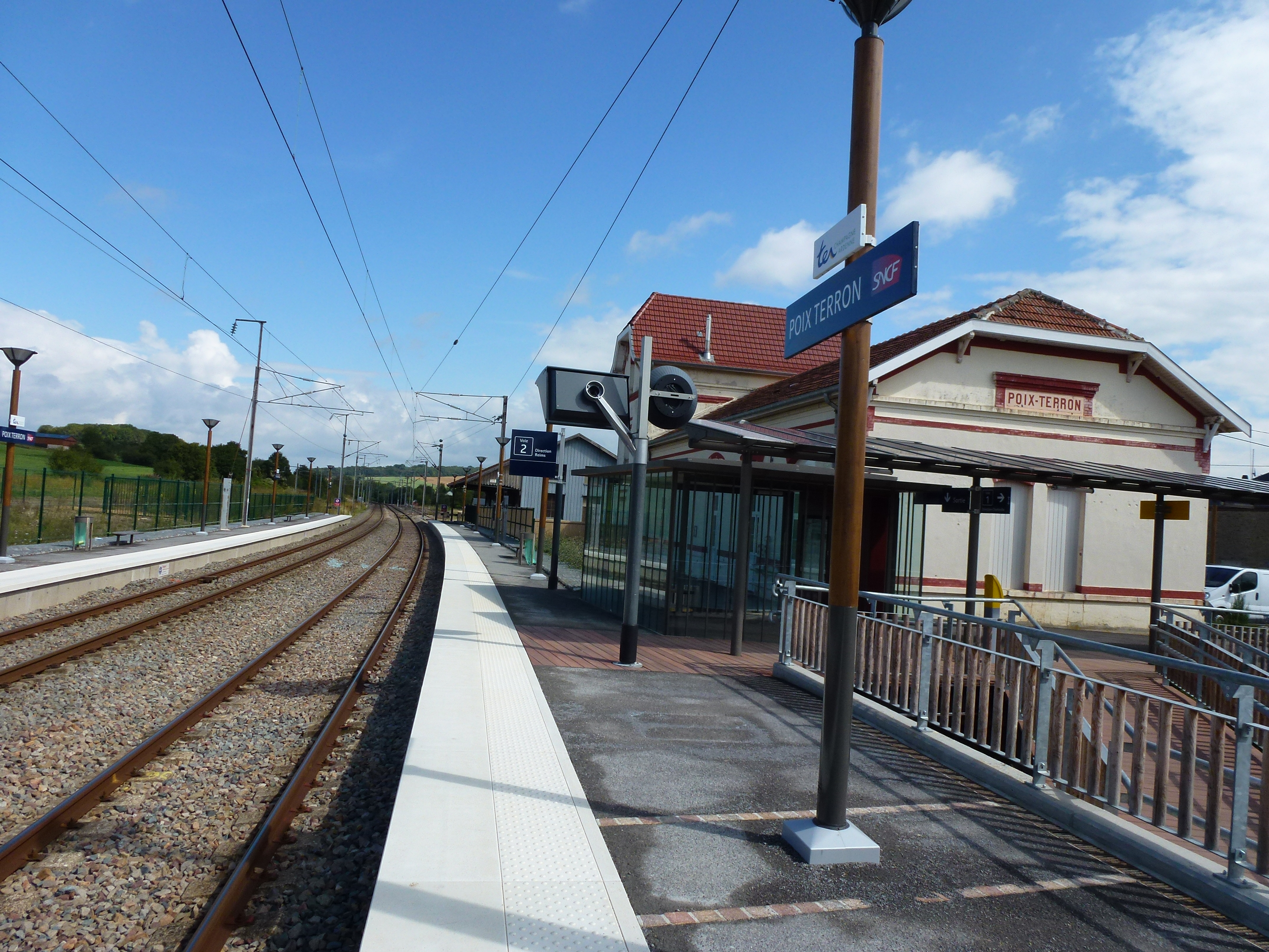 Poix-Terron (Ardennes) gare, les quais